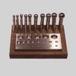 set of punches, used e.g. by a goldsmith